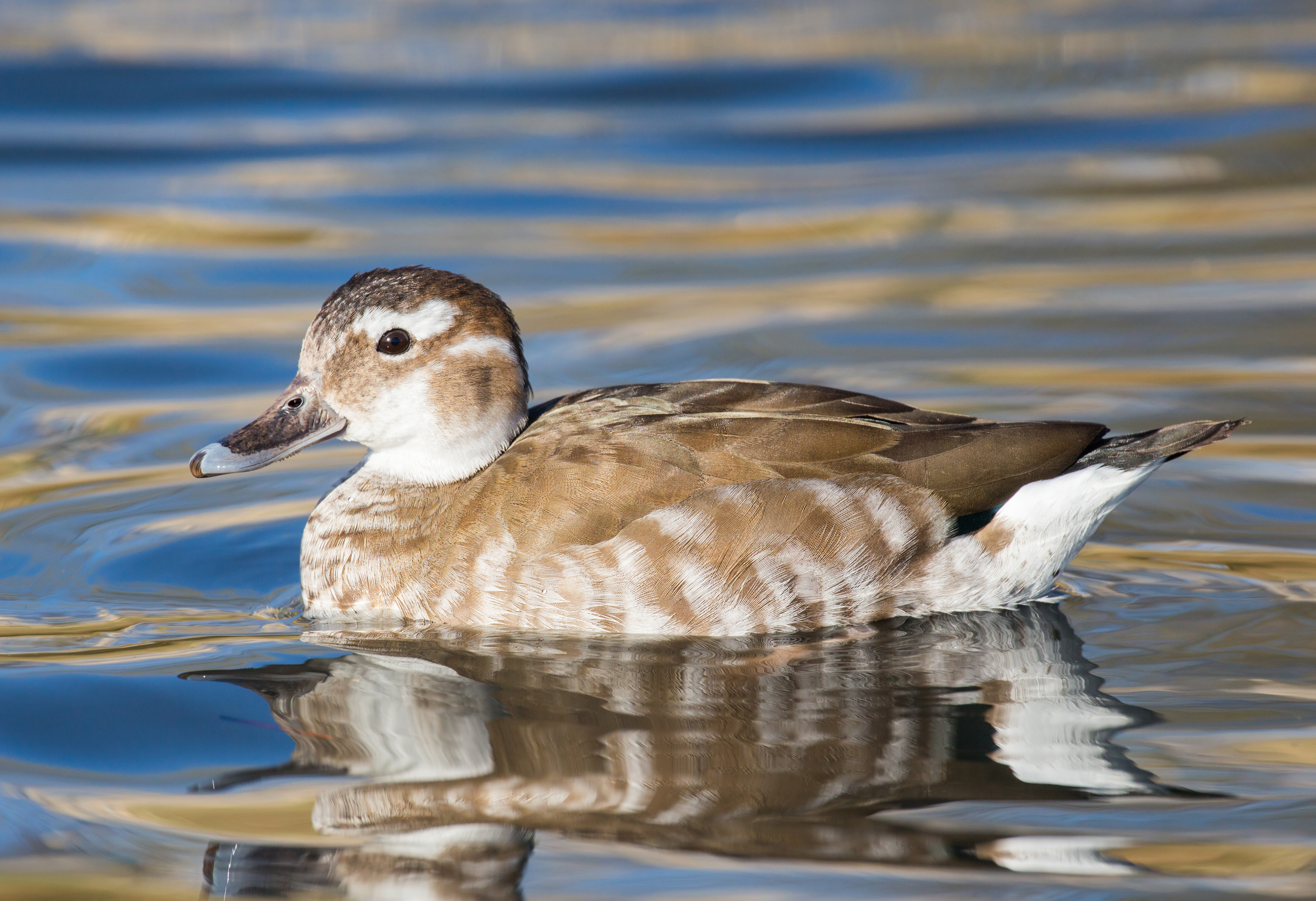 Female Callonetta leucophrys, commonly known as the Ringed Teal, at the London Wetlands Centre in Barnes, London.